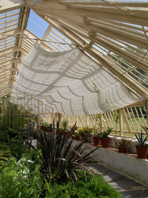 Vinery, Greenway House. A view from the opposite end of 191217. The roof casts shadows on the textile net beneath.